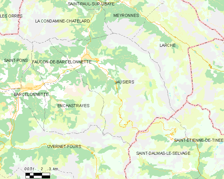 Map commune FR insee code 04096.png Légende